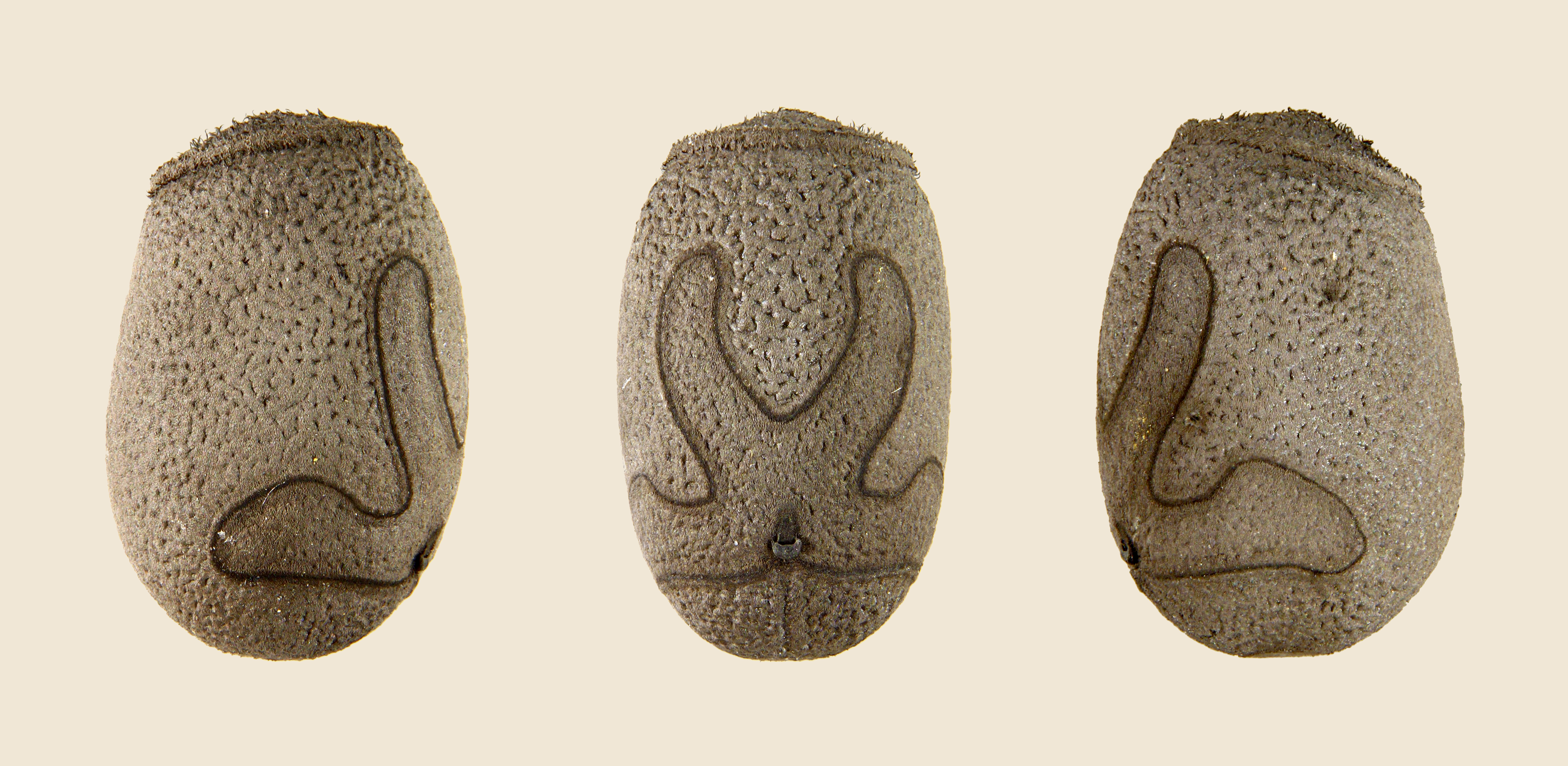 Malayan jungle nymph, egg; Length 0.9 cm; Own breeding, therefore not geocoded. Dorsal, lateral (right side), ventral, back, and front view.